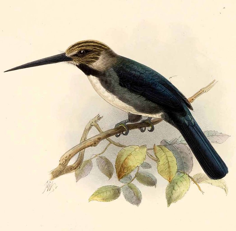 Jacamaralcyon tridactyla (Three-toed Jacamar)